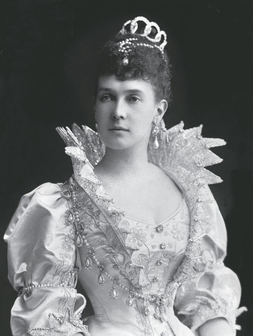 Grand Duchess Maria Pavlovna (the Elder) of Russia, nee Duchess Marie of Mecklenburg-Schwerin